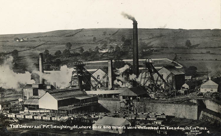 The Senghenydd pit